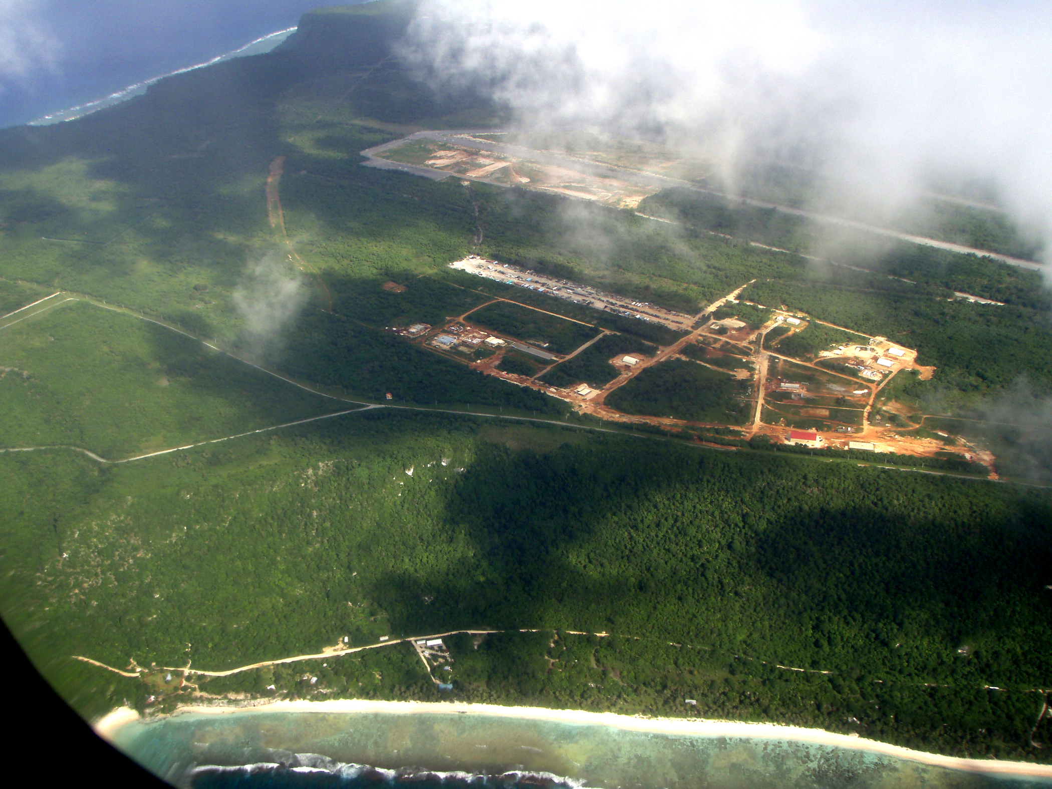 An aerial view of Northwest Field at Andersen Air Force Base, Guam. Northwest Field is an important historical, cultural and ecological resource for Andersen AFB. In addition to a historical airfield used for training, it's the location of the largest limestone forest on Guam, the natural habitat for several endangered bird species.